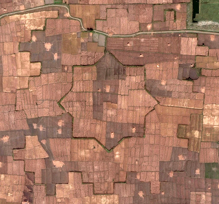 An aerial view of the starfort in Maklang, Manipur, India, as seen from Google Earth in 2013.